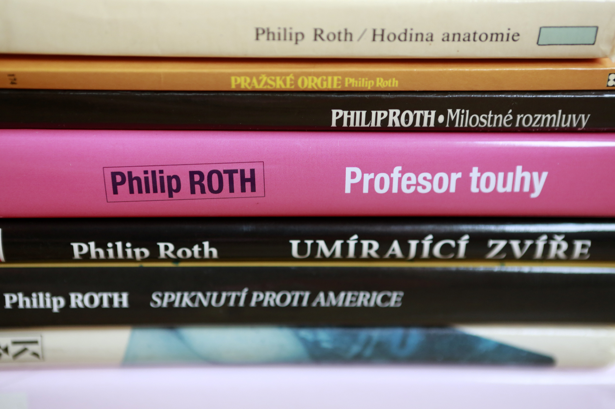 Covers of Philip Roth's novels in Czech.